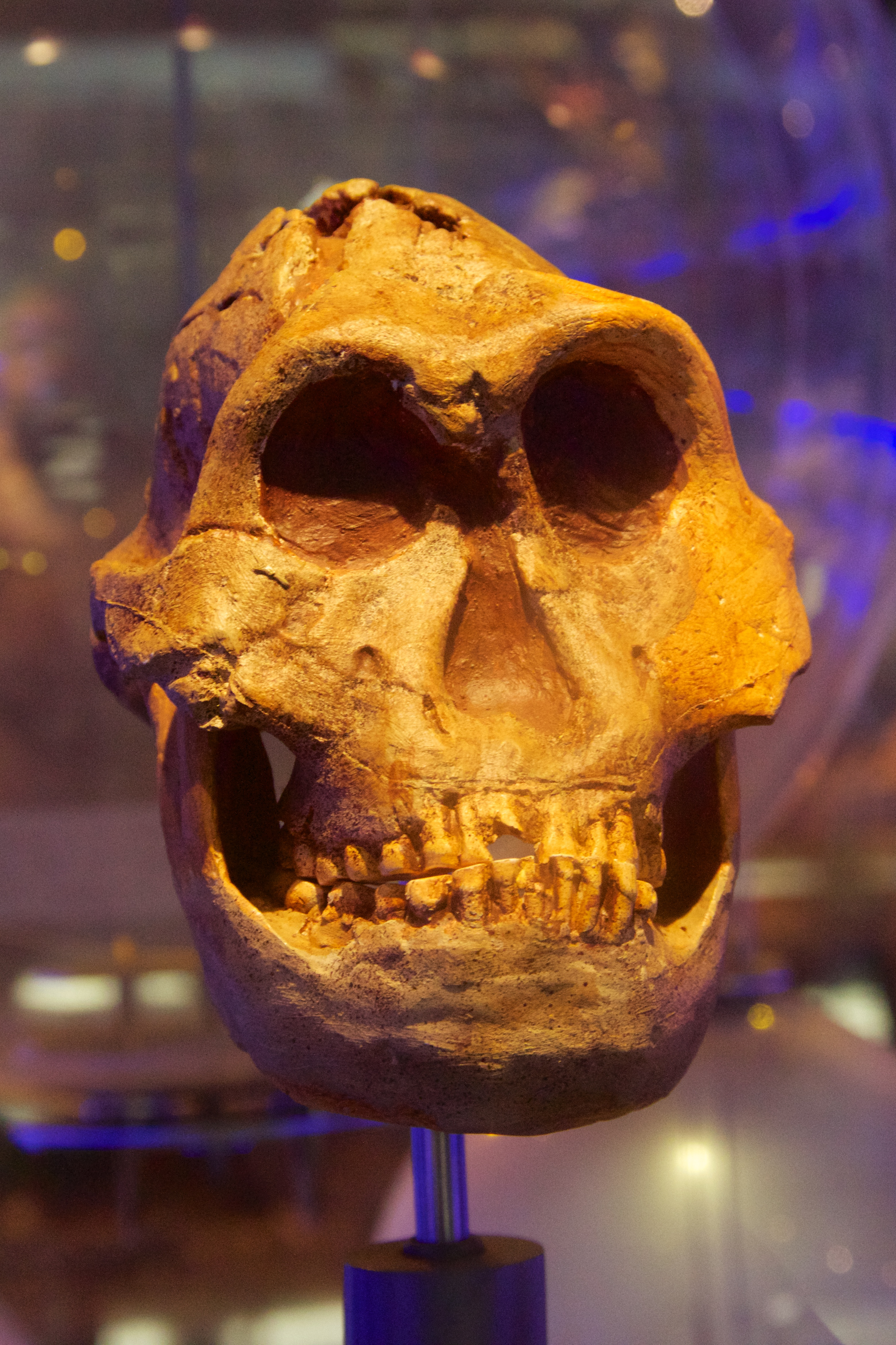 Parathropus robustus skull, female, excavated 1994. "Eurydice", DNH-7 at the Sterkfontein caves.